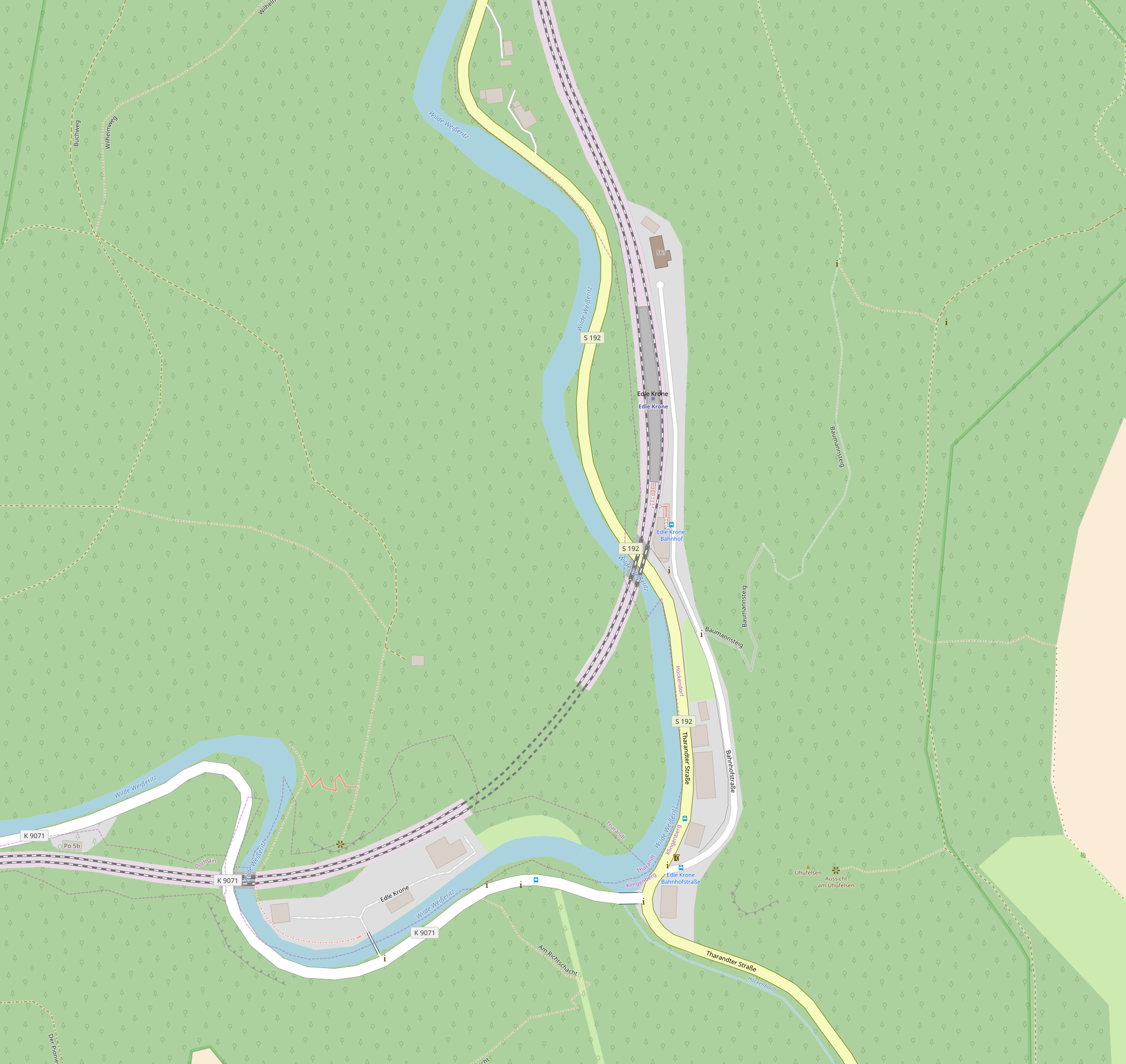 Map of Edle Krone, Sächsische Schweiz-Osterzgebirge district, Saxony, Germany (per October 2017) This map of Edle Krone was created from OpenStreetMap project data, collected by the community. This map may be incomplete, and may contain errors. Don't rely solely on it for navigation.